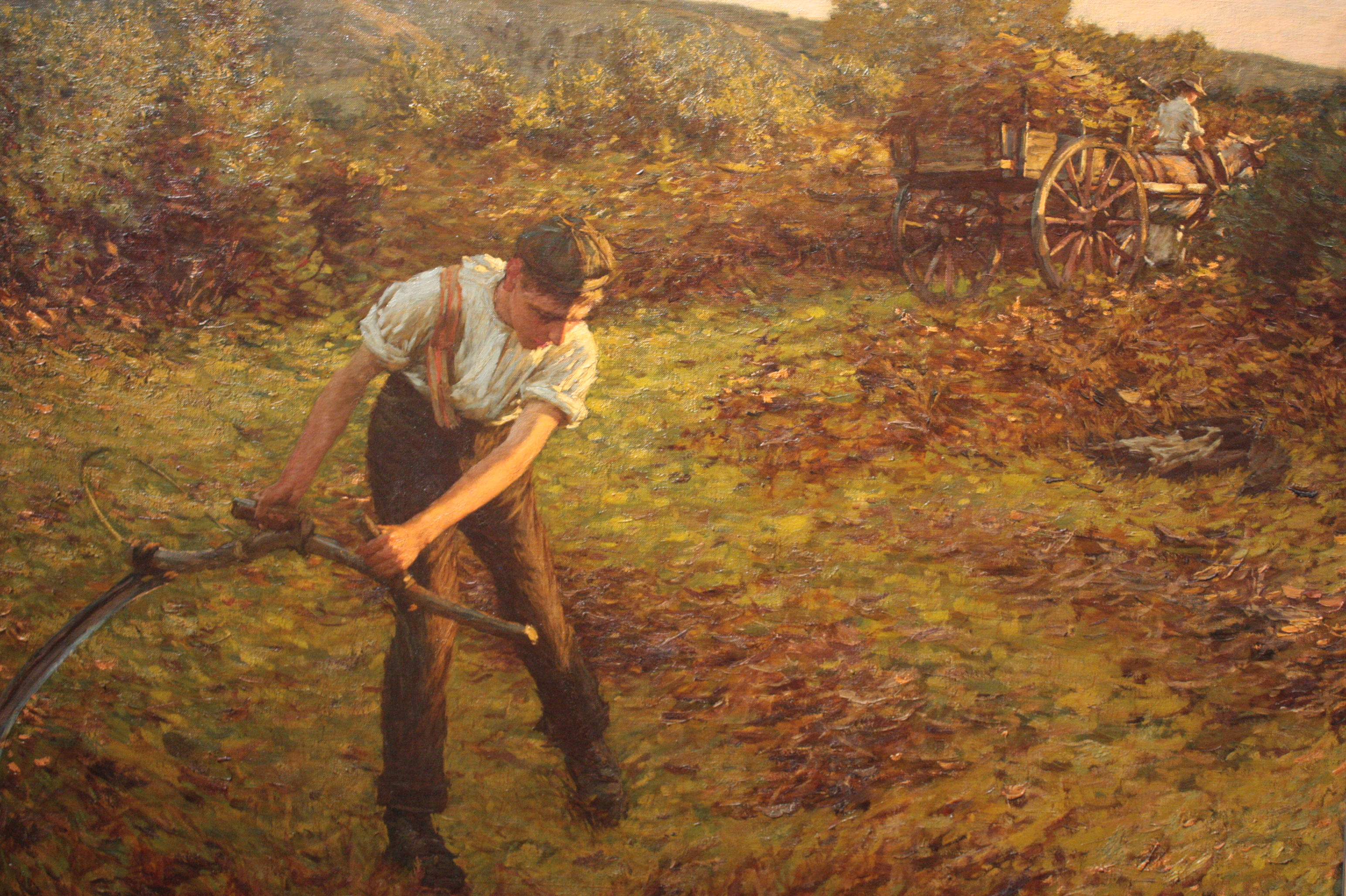 Moving Bracken by H H La Thangue, 1903, Guildhall Gallery, London